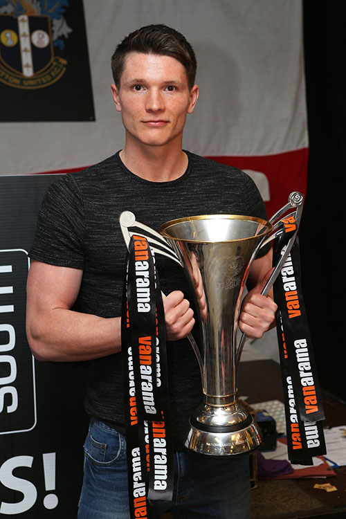 Photo of Sutton United midfielder Ryan Burge with National League South title trophy